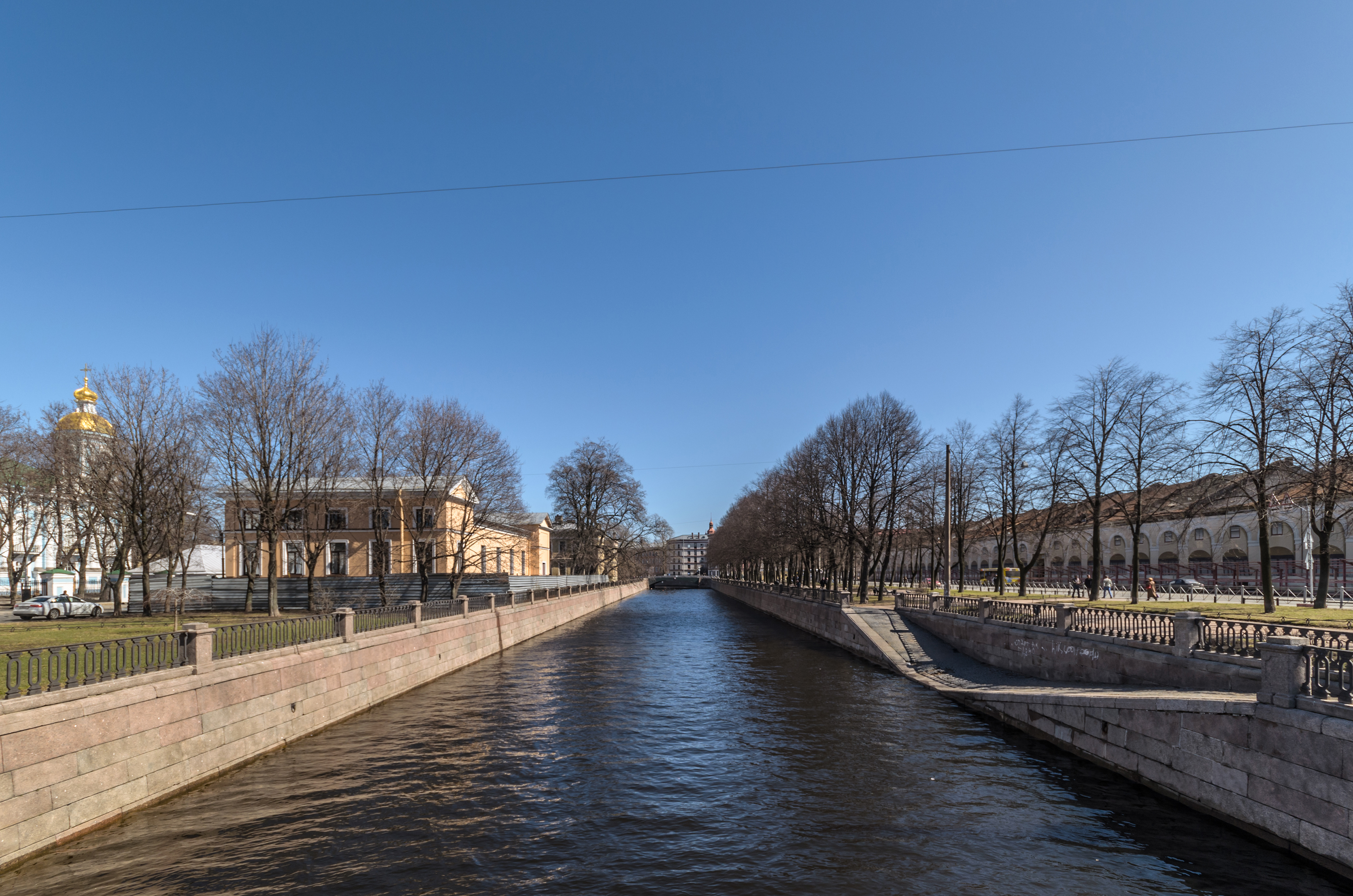 Griboedov channel in Saint Petersburg